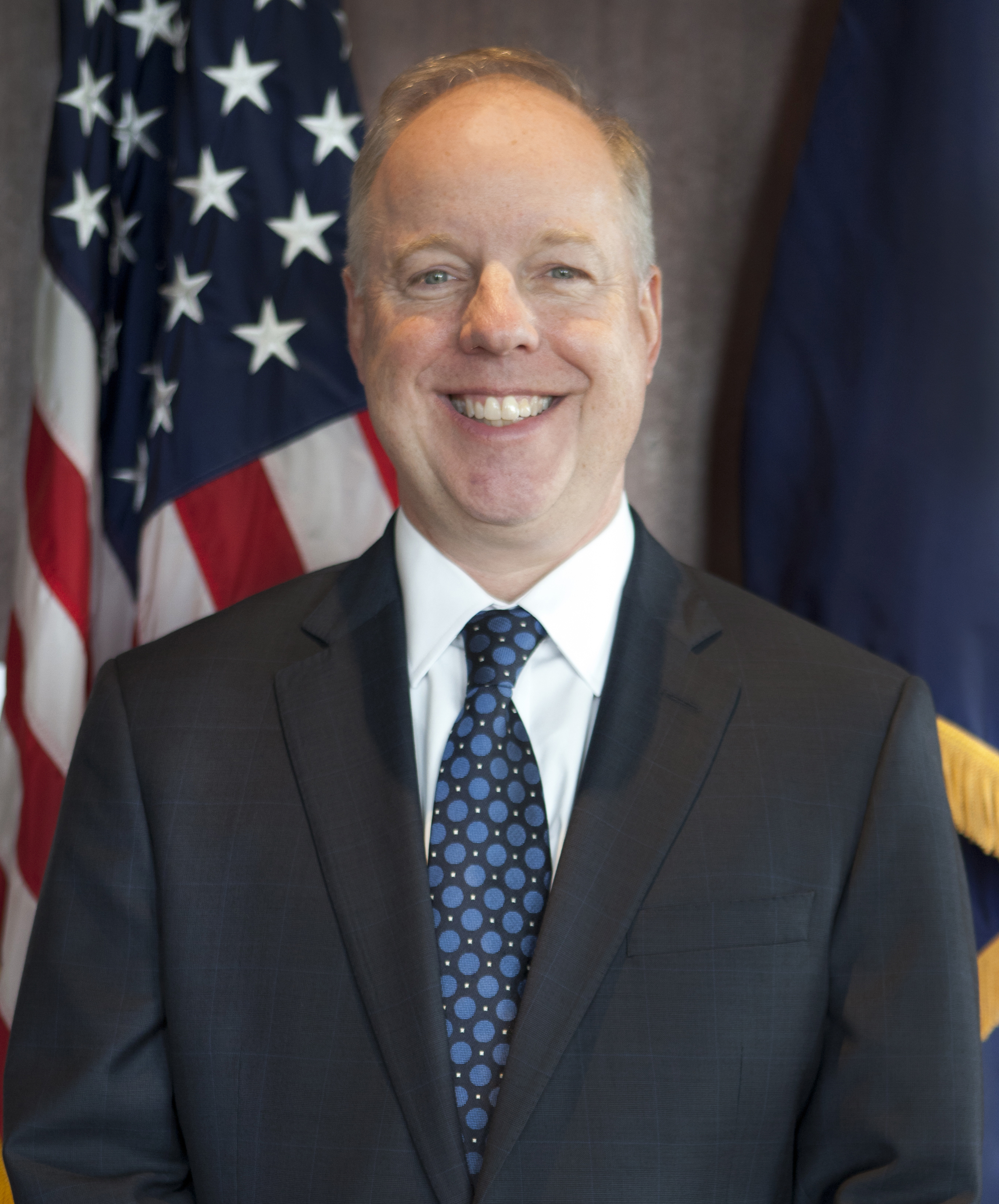 Kent D. Logsdon, Deputy Chief of Mission at the U.S. Embassy in Berlin